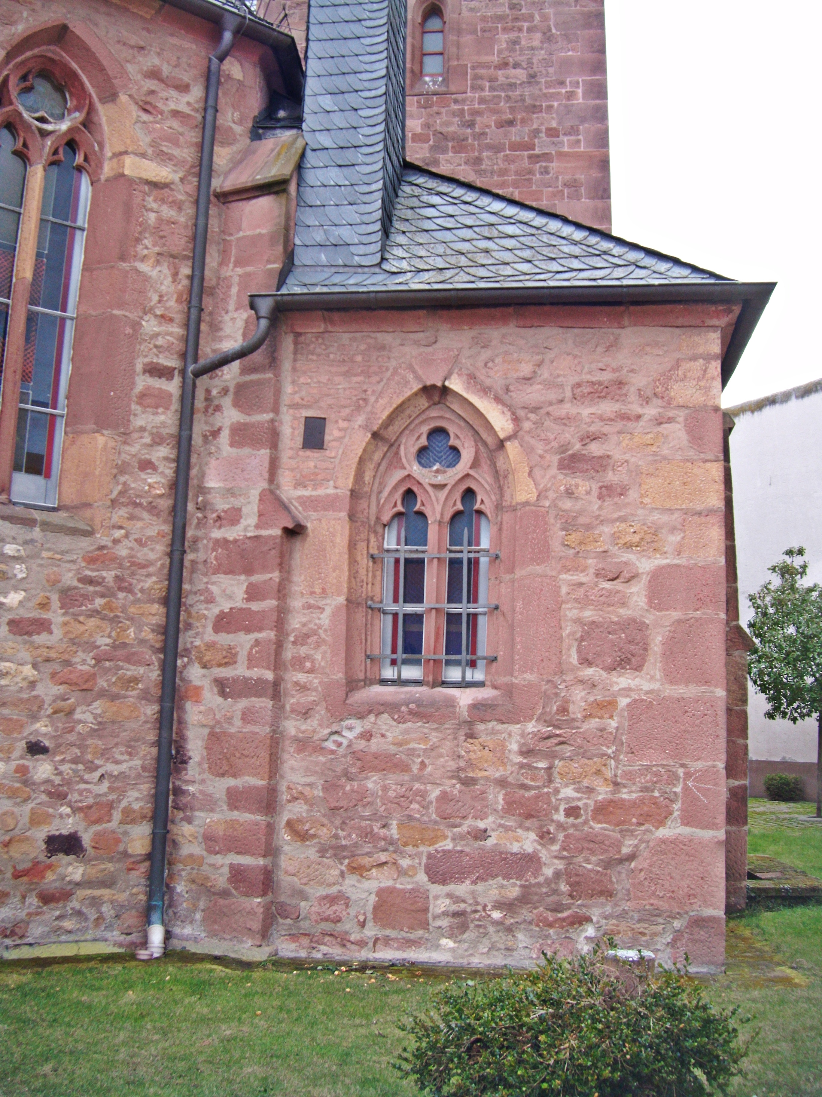 St. Stephan Grünstadt-Sausenheim